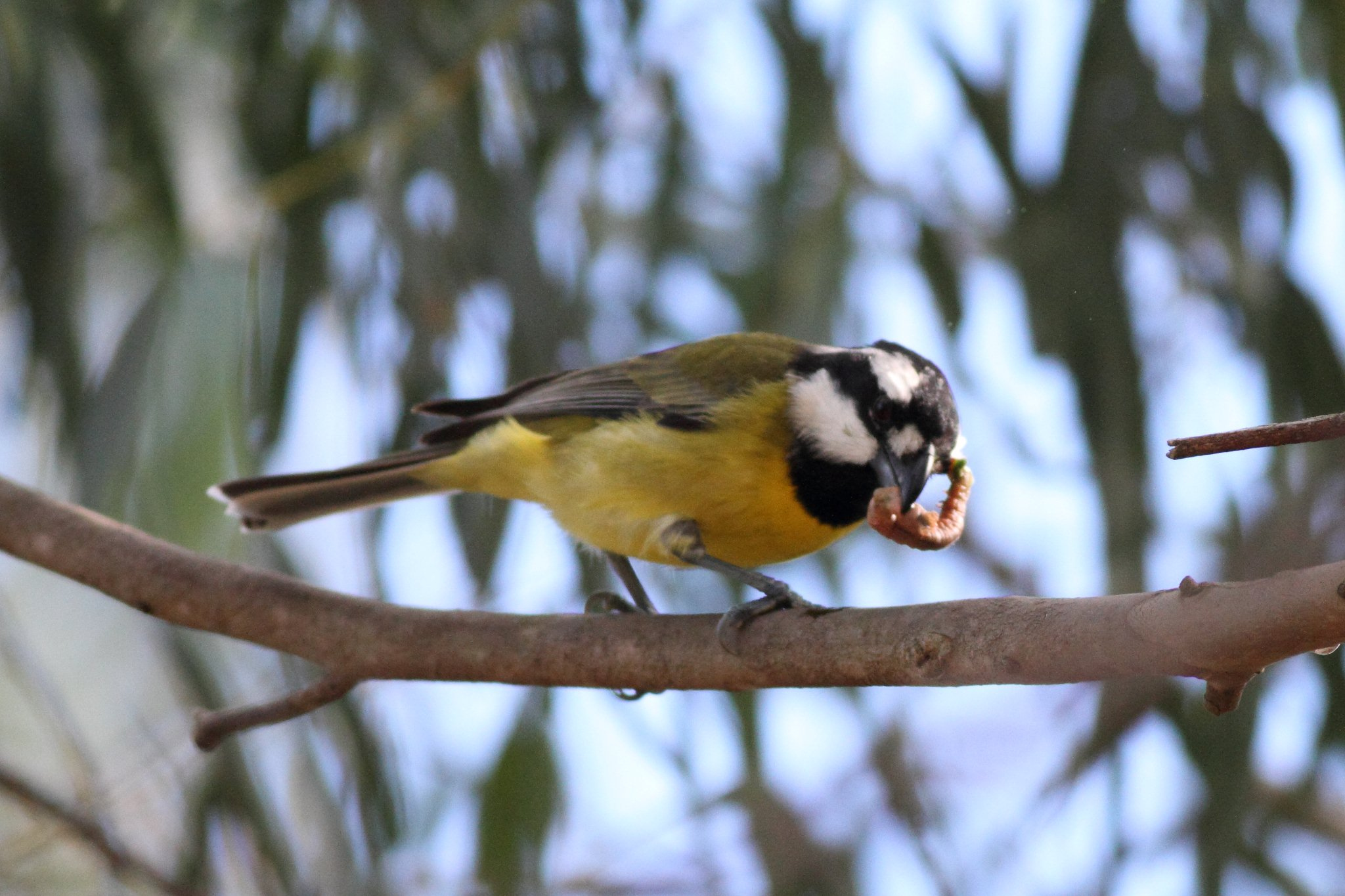 A male Crested Shriketit at Royal Botanic Gardens, Cranbourne, Australia. It is eating a caterpillar